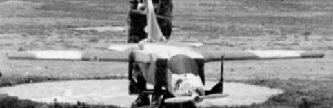 The Flogger D target drone, otherwise known as FQM-117B, a 1⁄9-scale model of Soviet MiG-27 attack aircraft